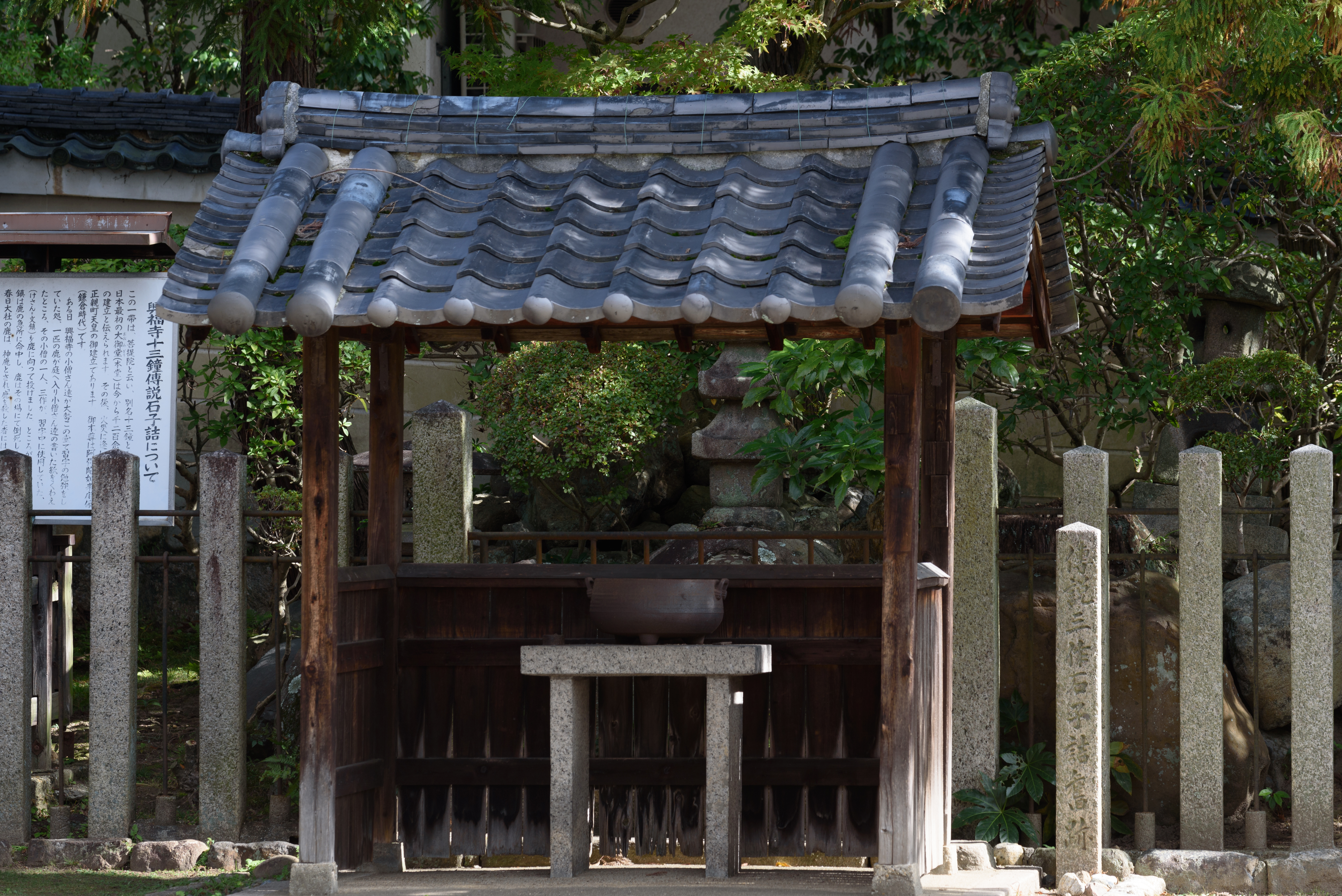 There is a tradition about a boy executed by Ishikozume in Nara. His name is Minosaku, and he was buried alive here because of killing a divine deer during the Edo period. Whether true or not, it is at Bodai-in, Kofuku-ji.